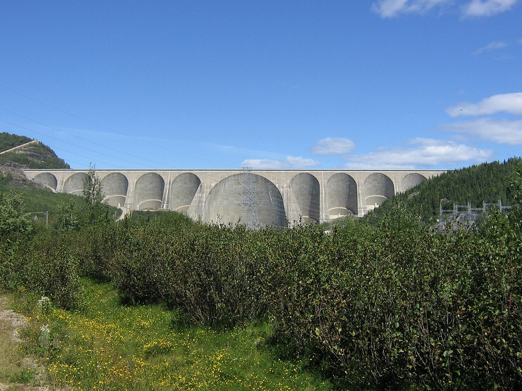 The Daniel-Johnson dam, on the Manicouagan River, in Quebec.